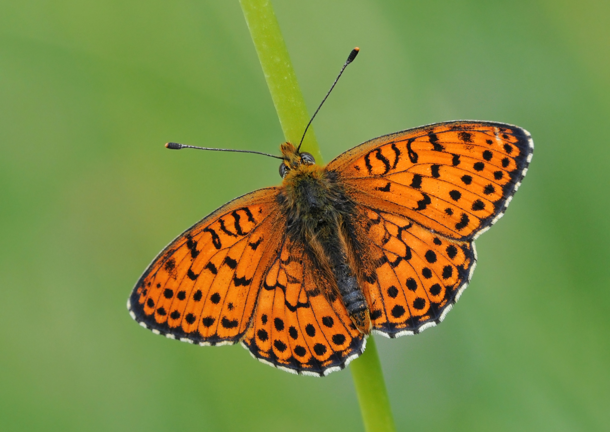 Wing upperside view of a Twin-spot Fritillary (Brenthis hecate). Pazaryolu, Erzurum, Turkey.